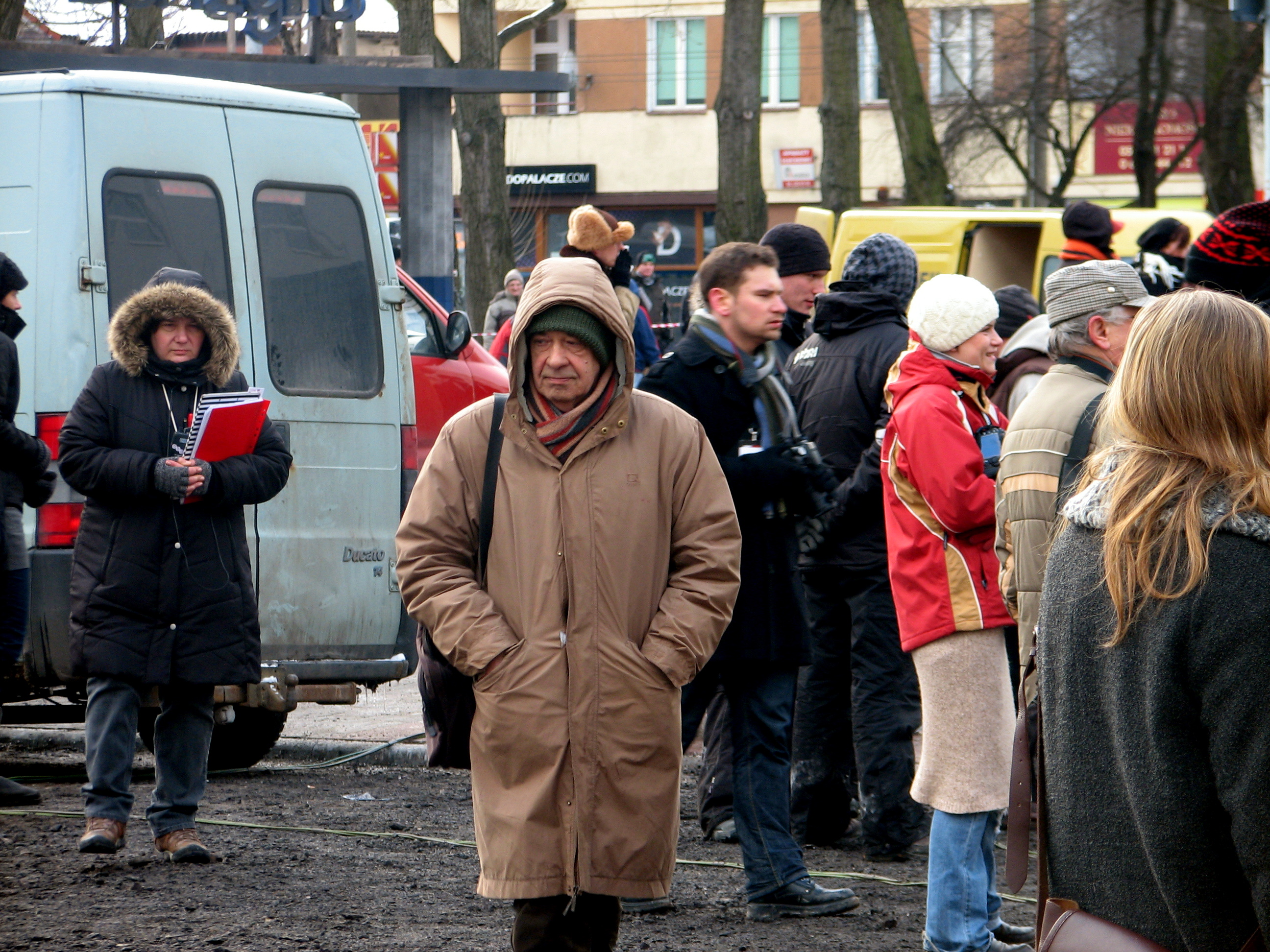 Filming of "Black Thursday" at intersection of ulica Świętojańska and Aleja Józefa Piłsudskiego in Gdynia. People on this picture are actors, extras, and film crew. "Black Thursday" is a film about Polish 1970 protests.